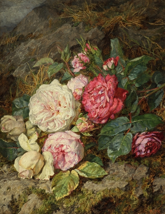 Roses - gift from Sir Merton Russell-Cotes, 1921 by Matha Mutrie from Russell-Cotes Art Gallery & Museum;via The Public Catalogue Foundation